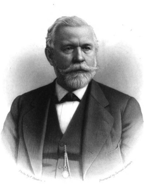 Photo of William Sellers